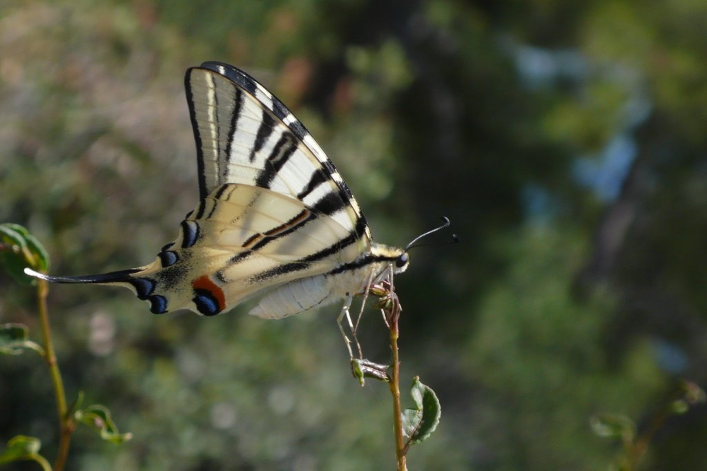 Butterfly in Split, Croatia